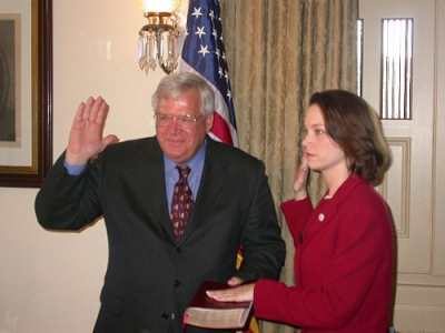 Rep. Stephanie Herseth is sworn into the House of Representatives by Speaker Dennis Hastert on June 3, 2004.